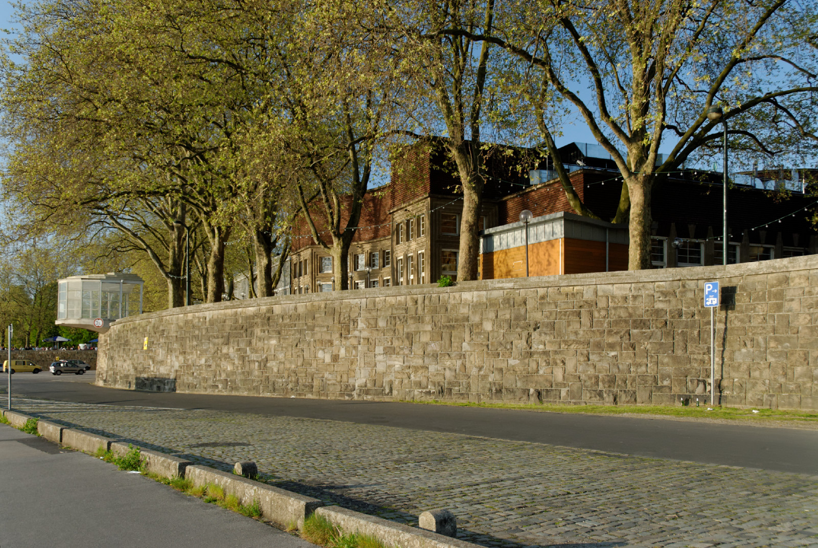 Rheinterrasse in Düsseldorf-Pempelfort, Germany